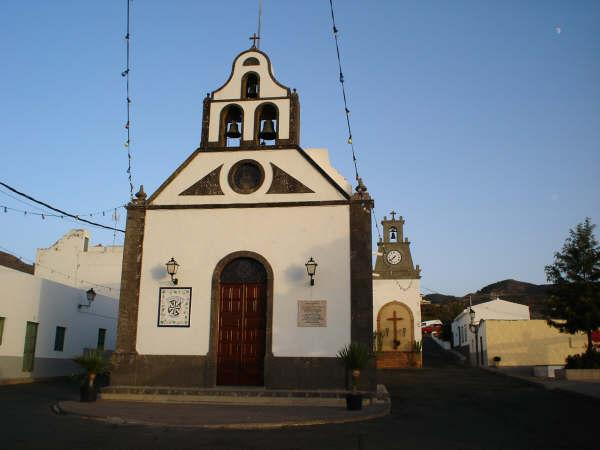 Church of Juncalillo